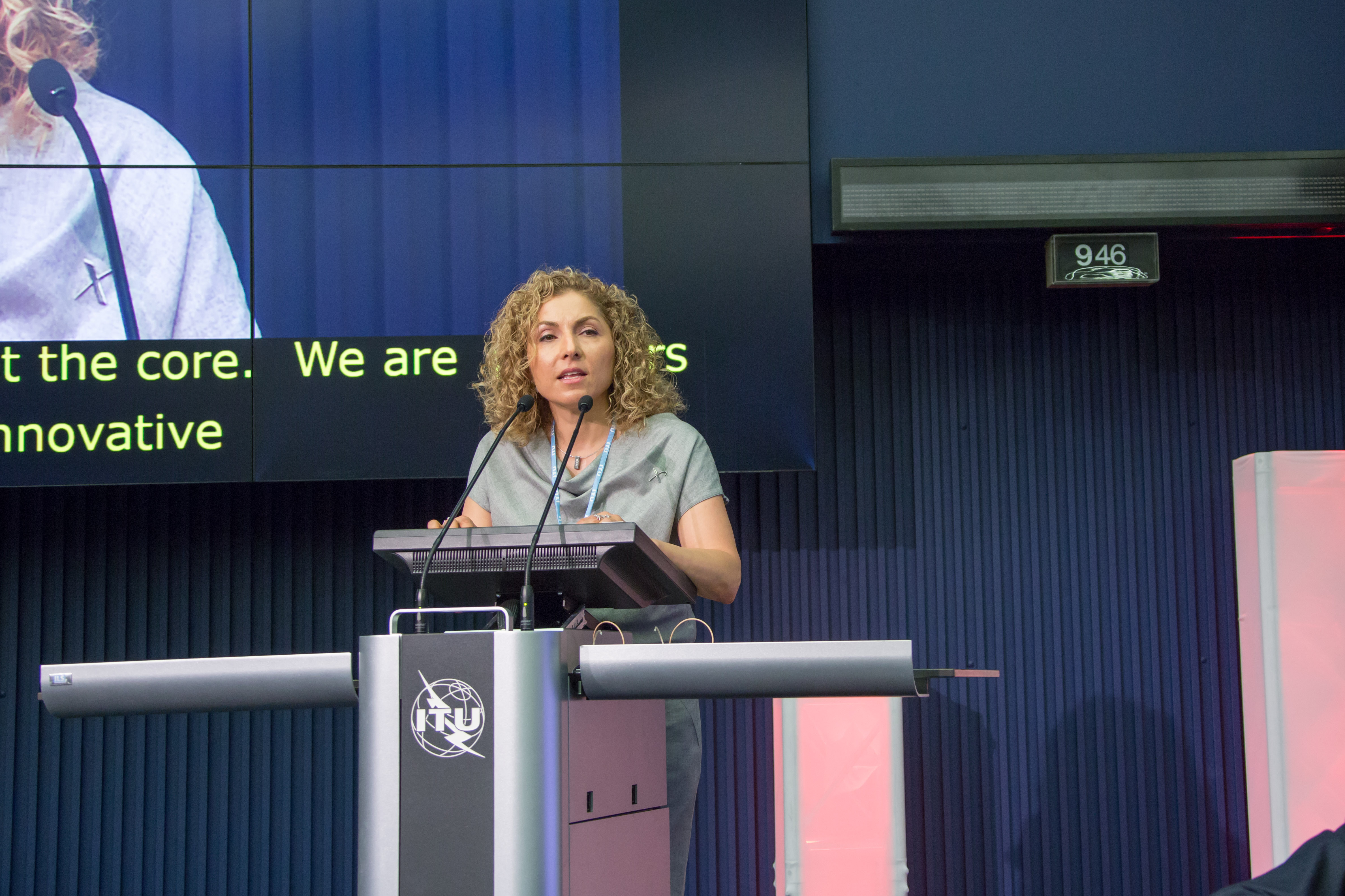 Anousheh Ansari, Member & Chair of Management, XPRIZE Foundation Board of Directors, Space Ambassador​ delivering her opening remarks at the AI for Good Global Summit 2018 15-17 May 2018, Geneva ©ITU/D.Woldu ITU (International Telecommunication Union)